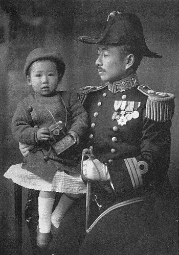 Kiyozumi Inoue and his son